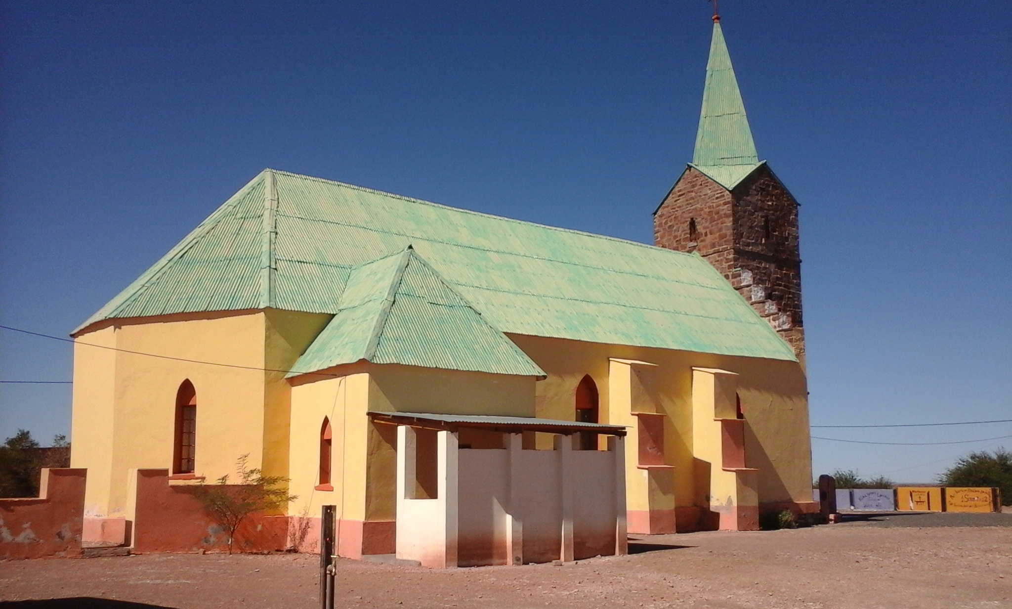 Lutheran church in Berseba, southern Namibia